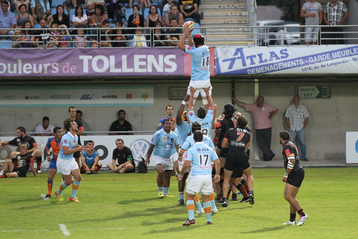 Prise de balle en touche face à Narbonne (Pro D2) en match de préparation